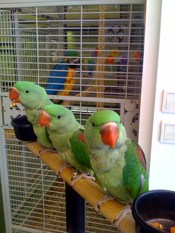 Three juvenile Alexandrine Parakeets (also known as the Alexandrian Parrot) on a wooden perch in a pet shop. There is a Blue-and-Yellow Macaw in a cage in the background.